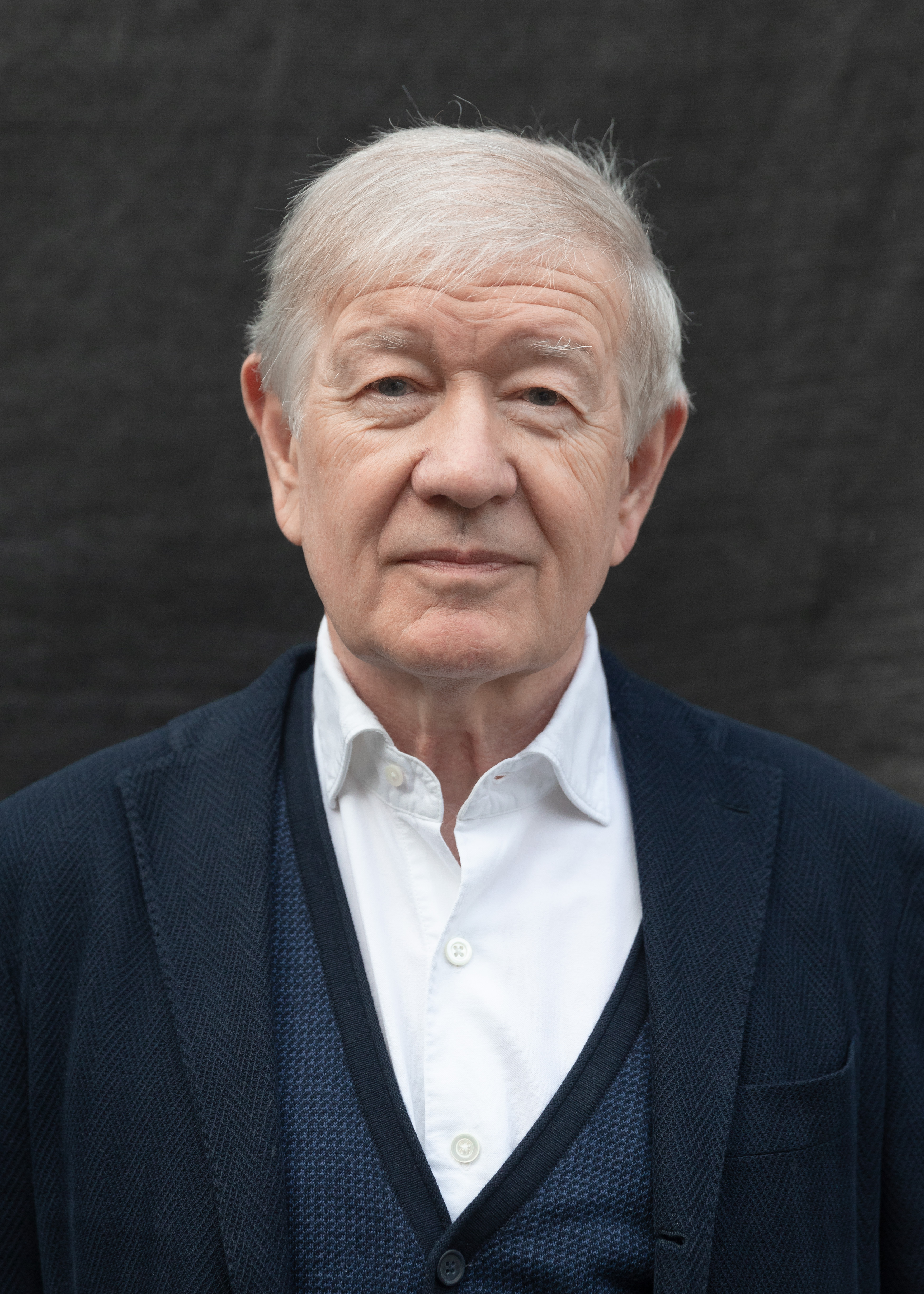 Armin Thurnher at a protest against the governments plans for the ORF (Karlsplatz, Vienna, Austria).